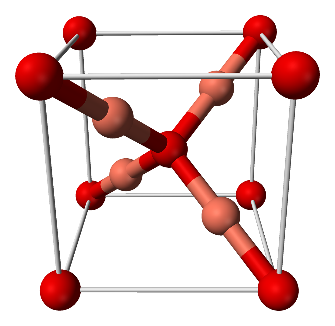 Ball-and-stick model of one of two possible unit cells for copper(I) oxide, Cu2O